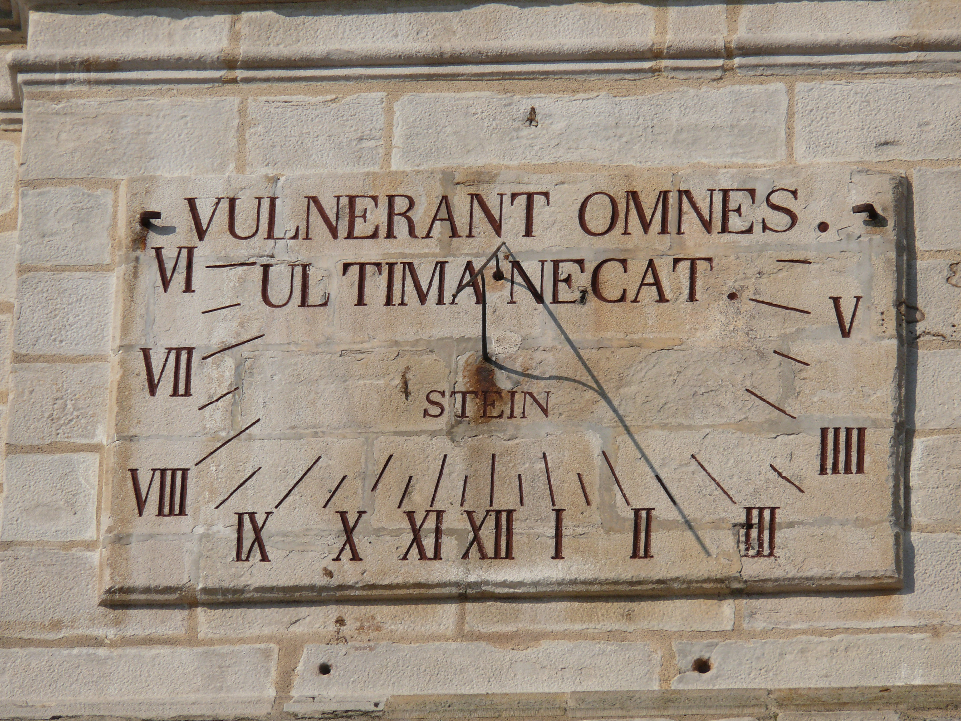 Saint-Vincent's church of Urrugne (Pyrénées-Atlantiques, Aquitaine, France).